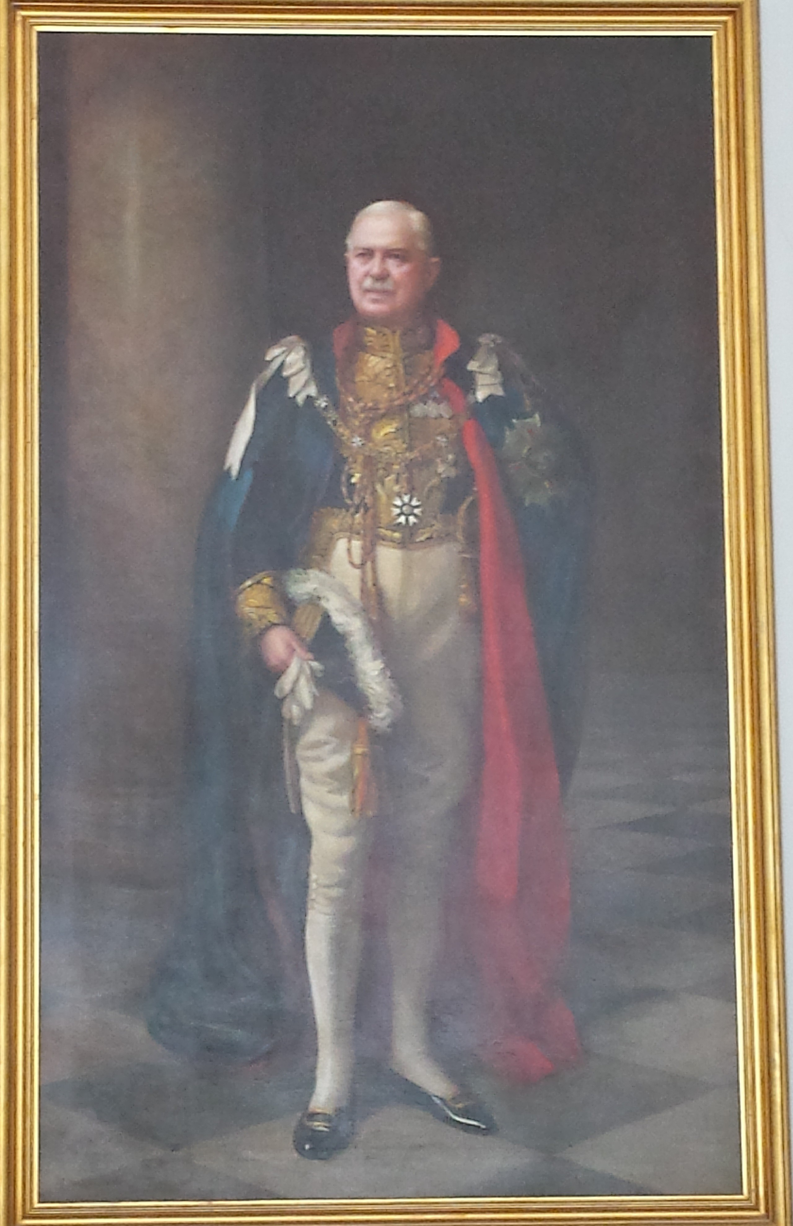 Portrait of Gerald Strickland Count della Catena and Baron Strickland of Sizergh (1861-1940)